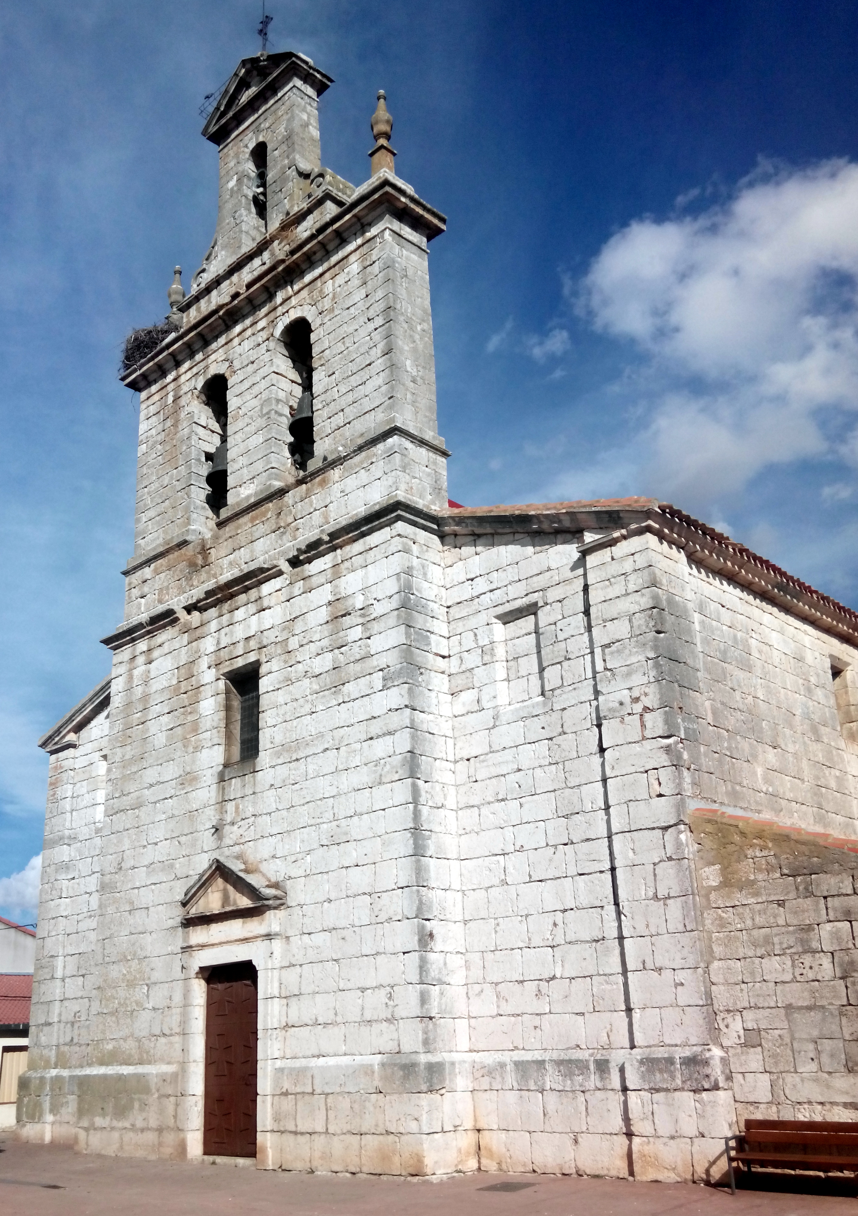 Church of St. Vincent of Villagonzalo Pedernales, Burgos, Spain.